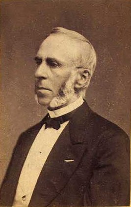 Herman Frederik Ewald (1821-1908), Danish writer